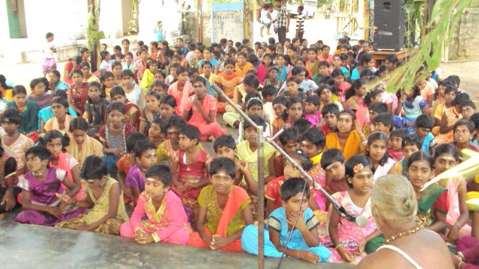 Children are attending a spiritual musical function at Mahadeva Ashram Chiruvar Illam (Gurukulam) in Kilinochchi.